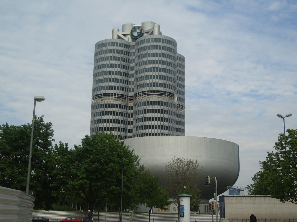 Outlook of BMW Museum